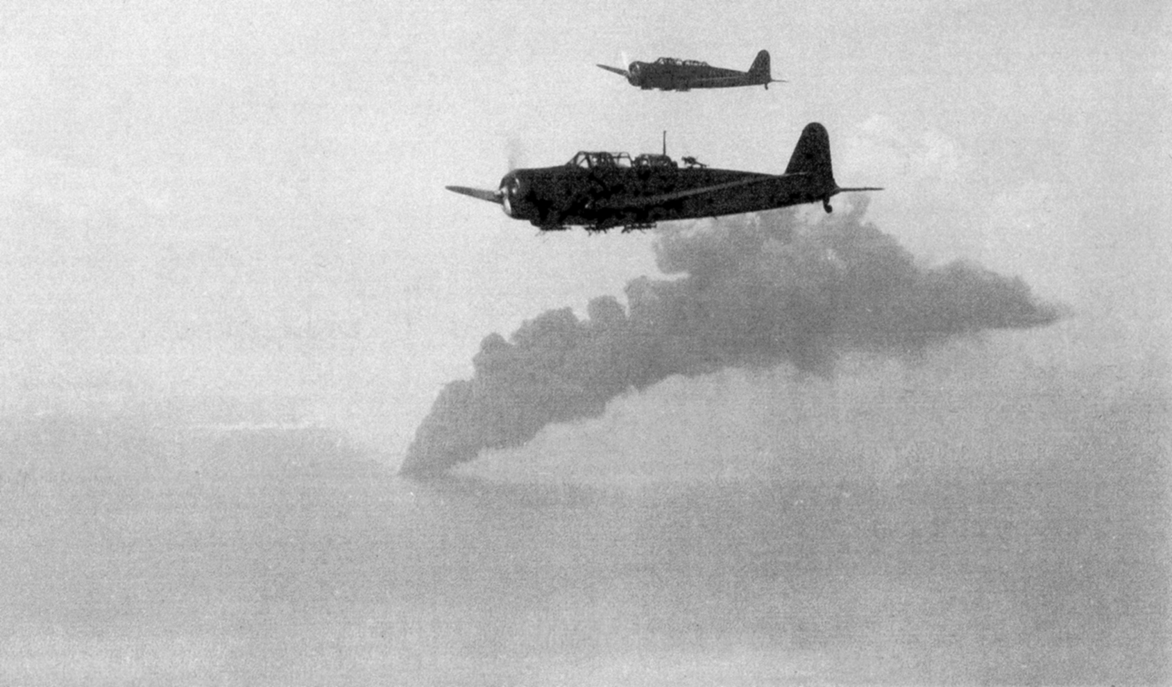 Two Japanese Nakajima B5N torpedo bombers (B5N2 in the foreground and B5N1 in the background) over the Java Sea on 17 February 1942. The smoke in the background is coming from the Dutch destroyer HrMs Van Nes. She was sunk by Japanese aircraft from the aircraft carrier Ryujo circa 30 km of Toboali, Bangka Island, while escorting the troop transport Sloet van Beele. According Tom Womack's The Allied Defense of the Malay Barrier, 1941-1942 (p. 150) it can also be Dutch tanker Manvantara.